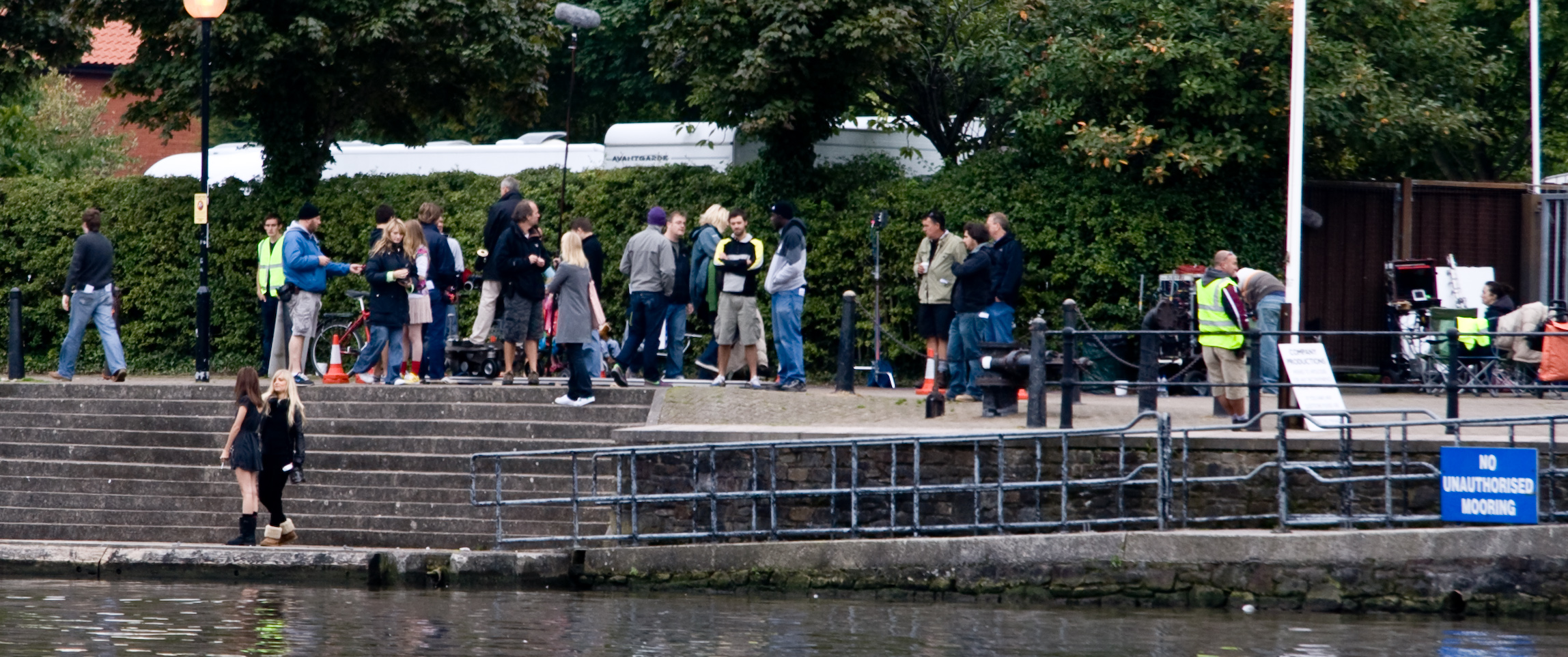 Filming of Skins at the Bristol harbourside